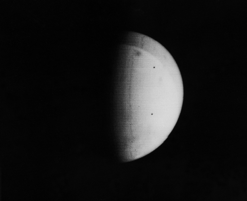 (May 30, 1971) The most conspicuous feature yet observed on Mars by Mariner 9 is the darkish spot located near the top of this picture. It has been tentatively identified as Nix Olympica, a curious ring-shaped feature photographed by Mariners 6 and 7 in 1969 and a point which radar indicates is one of the highest on Mars. One possible explanation suggests a high mountain or plateau which is being seen as it rises up through the bright dust surrounding the rest of the planet. The picture, one of a series of 31 recorded on the first tape-load during approach to Mars, was taken at 8:46 a.m. PST, November 11, 1971, at a range of about 408,000 miles. North is at the top. Mariner 9 was the first spacecraft to orbit another planet. The spacecraft was designed to continue the atmospheric studies begun by Mariners 6 and 7, and to map over 70% of the Martian surface from the lowest altitude (1500 kilometers [900 miles])and at the highest resolutions (1 kilometer per pixel to 100 meters per pixel) of any previous Mars mission. Mariner 9 was launched on May 30, 1971 and arrived on November 14, 1971.